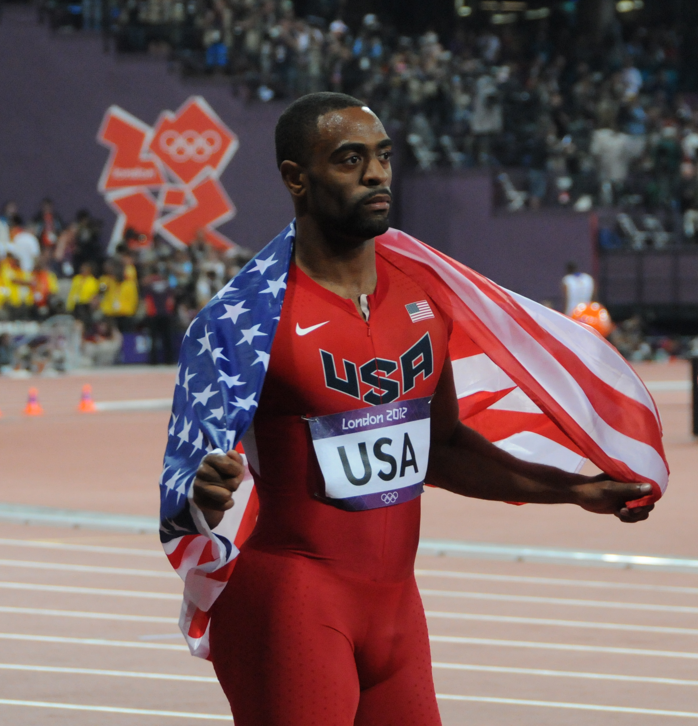 Tyson Gay from the American Relay 4x100 in London